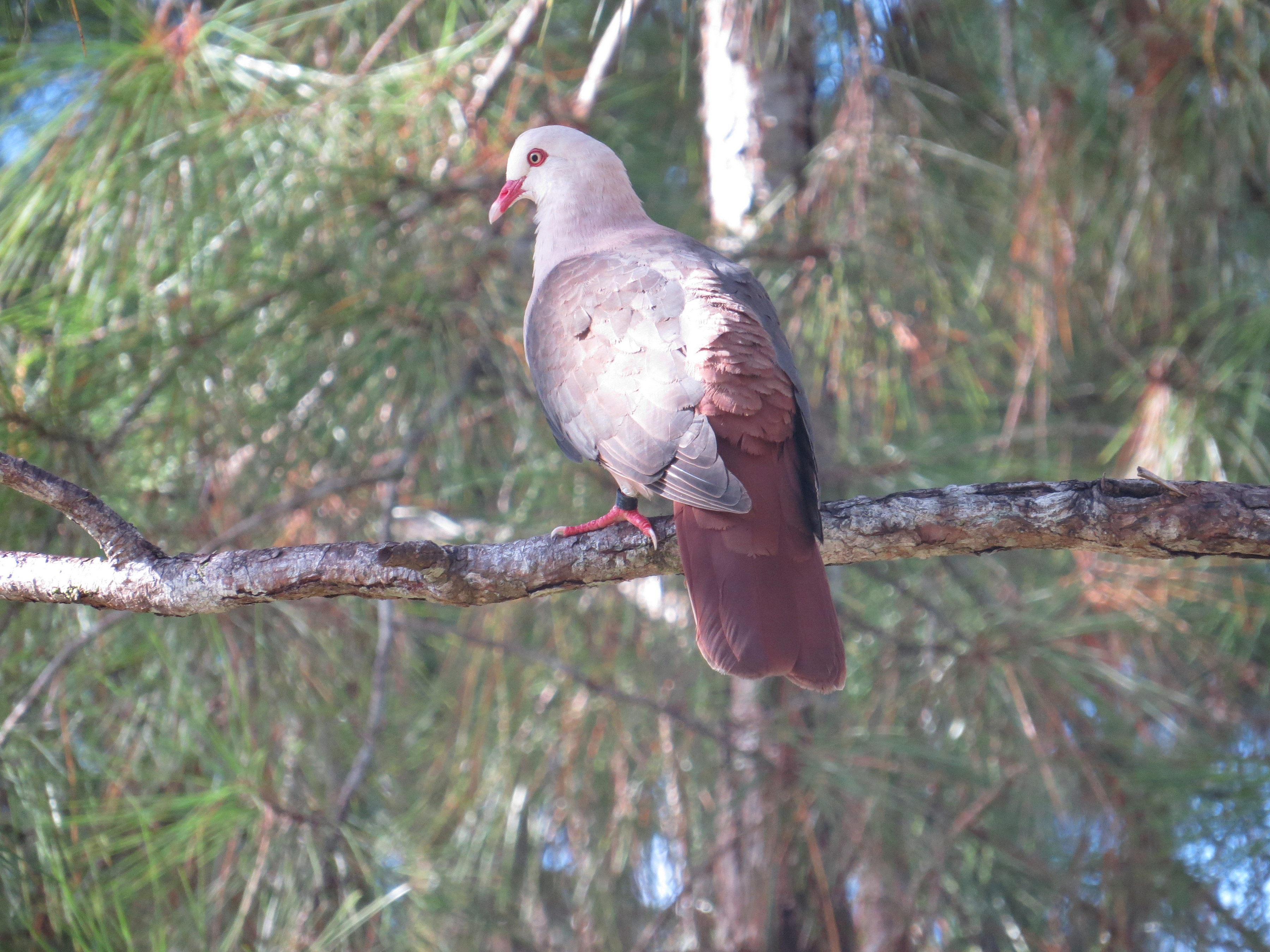 Pink pigeon near Le Pétrin, Mauritius (05/2016).